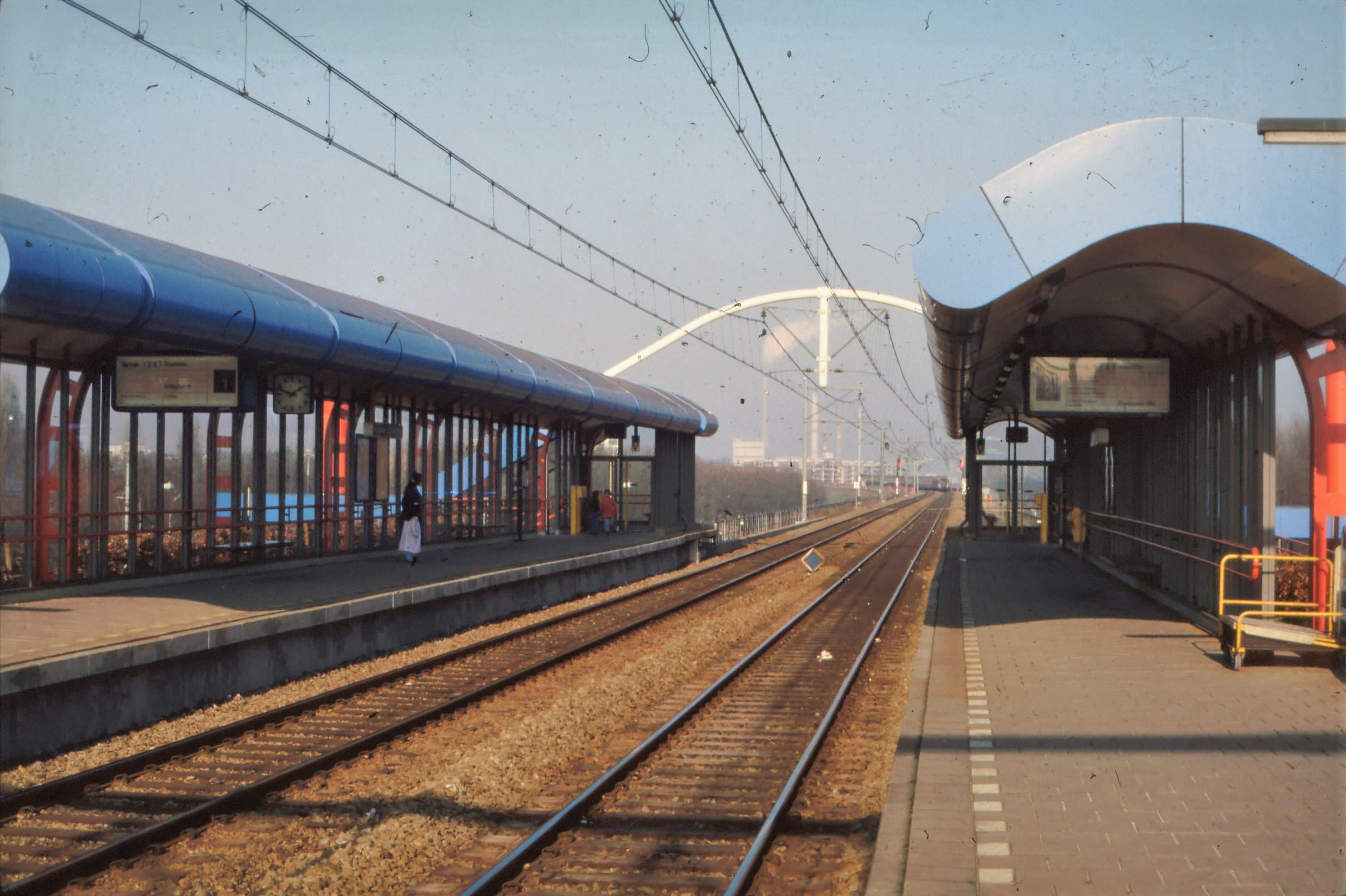 Station Amsterdam De Vlugtlaan (closed 2000), the Netherlands